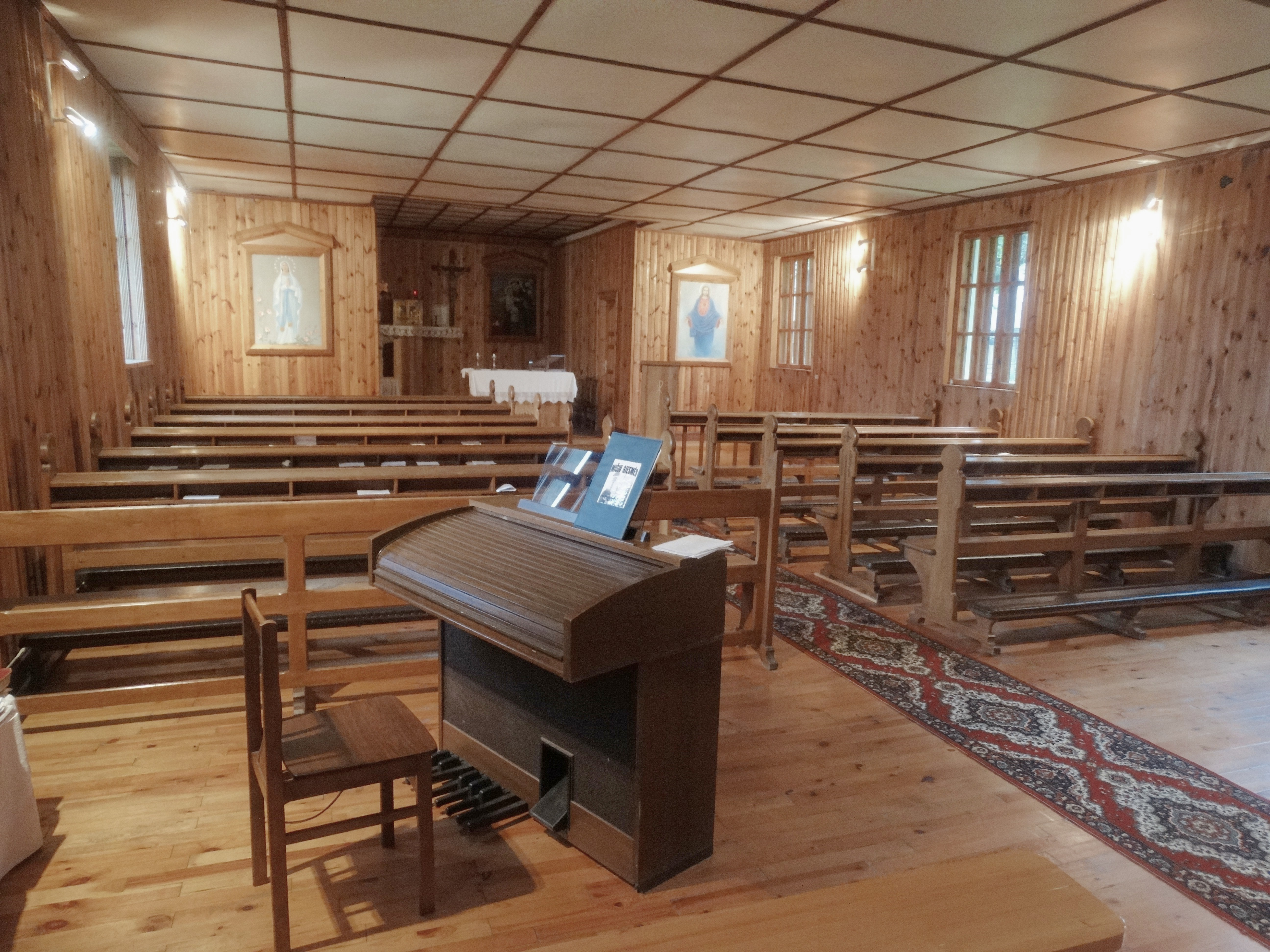 Catholic chapel, Degučiai, Zarasai district, Lithuania